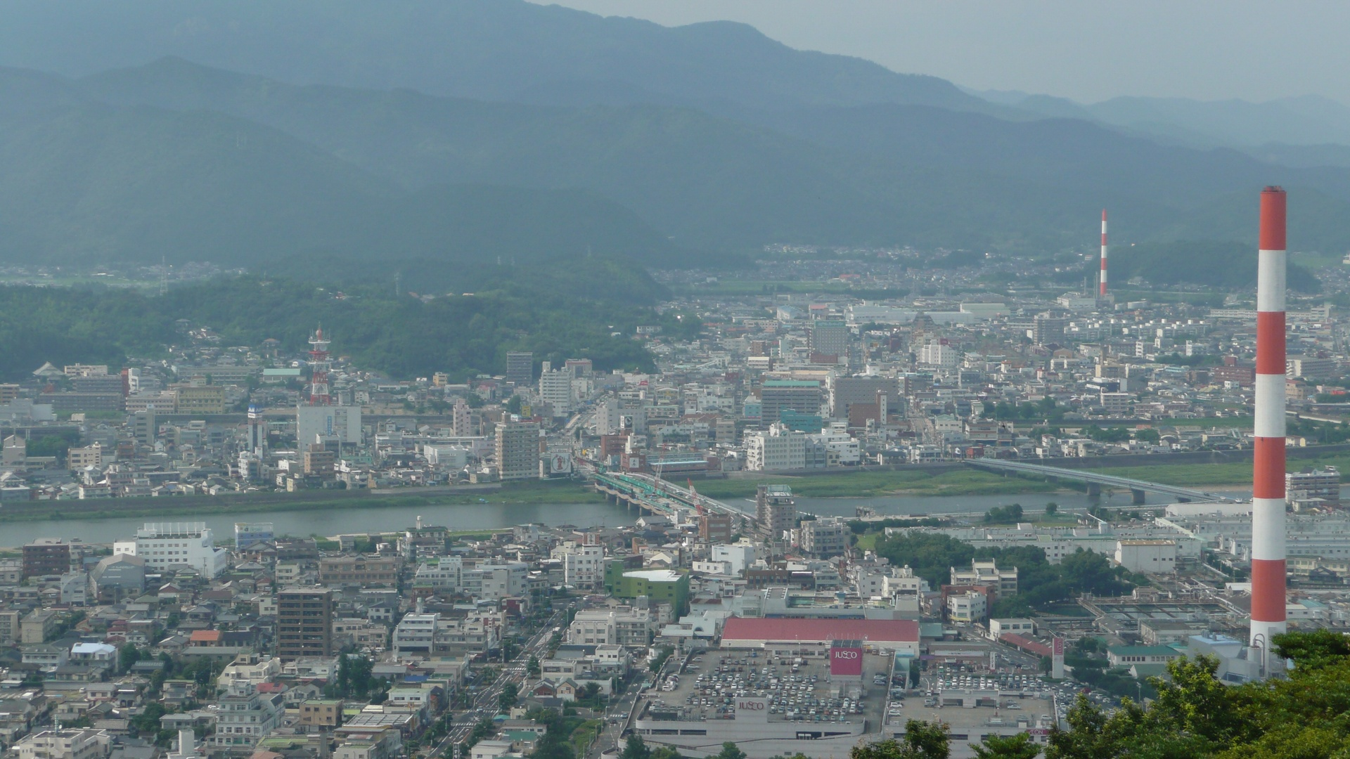 Central Nobeoka City (Miyazaki Prefecture, Japan)